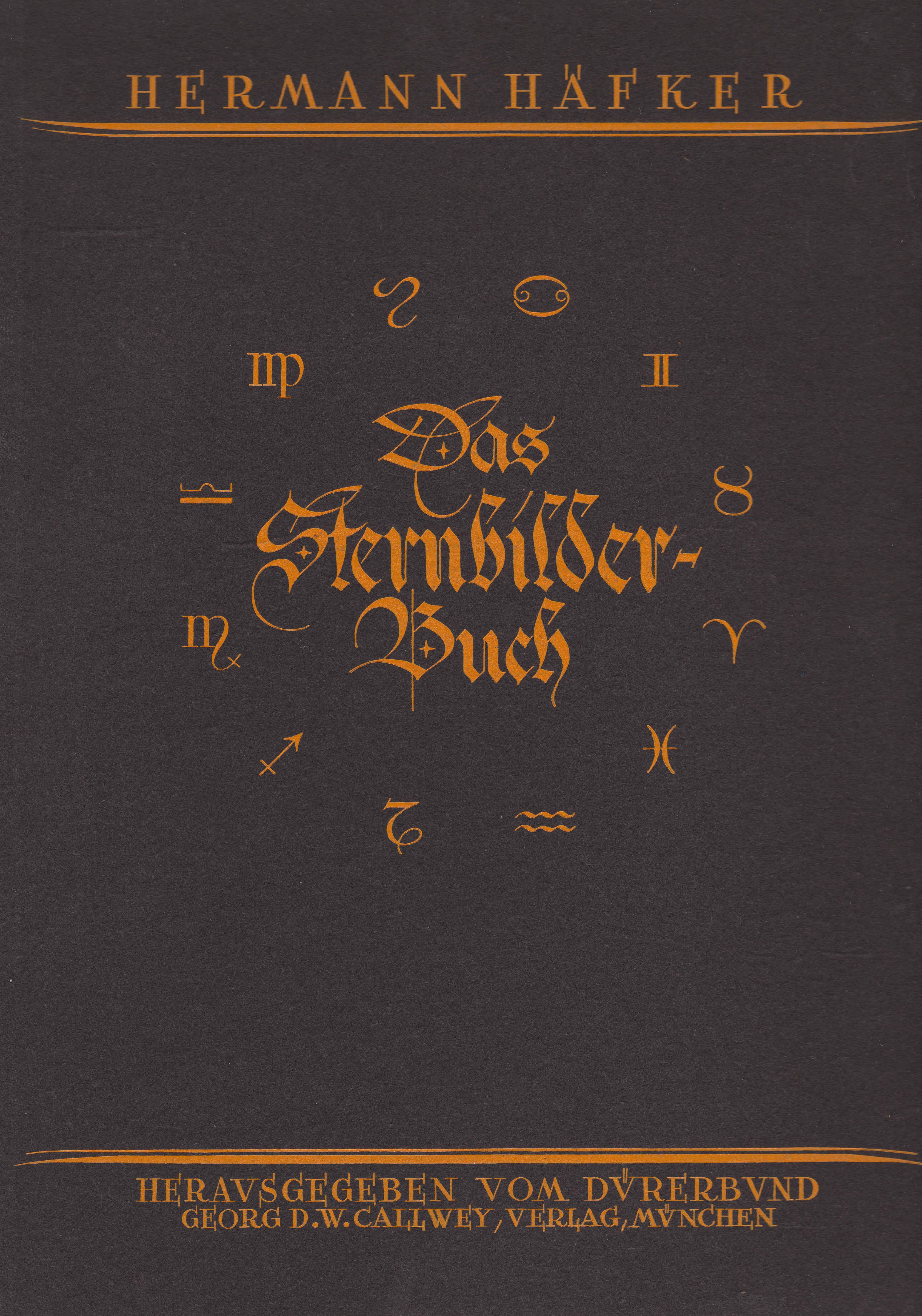 Book cover by Friedrich Kurt Fiedler, author Hermann Häfker, editor Dürerbund